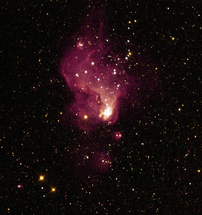 A Giant Star Factory in Neighboring Galaxy NGC 6822